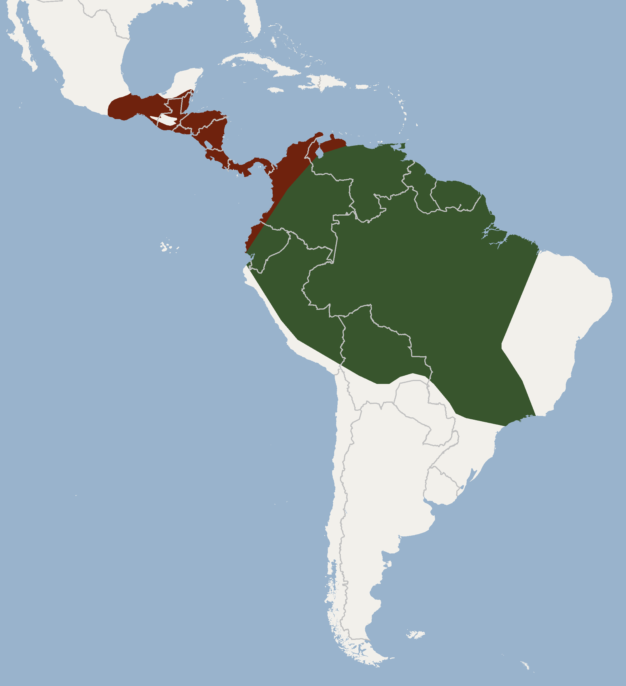 According to Velazco & Al., 2010 and Reid, 2008 . Subspecies range: P.h.helleri in brown, P.h.incarum in green.